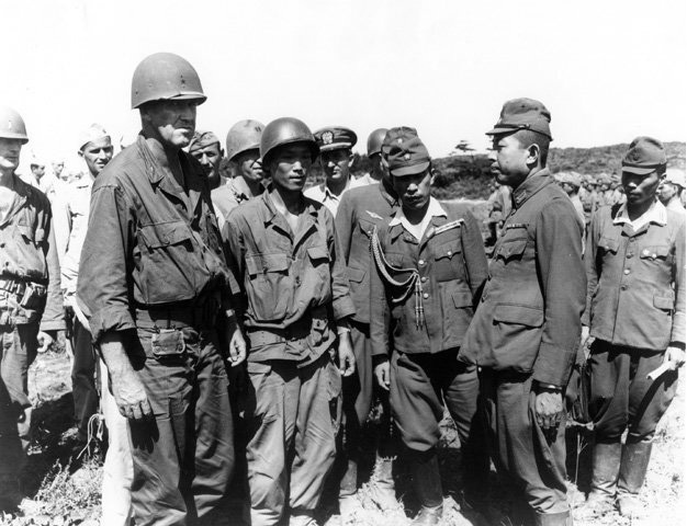 Brigadier General Robert M. Cannon questions a Japanese commander about his troops as to disease, strength, etc., on Miyake Island. Japan.